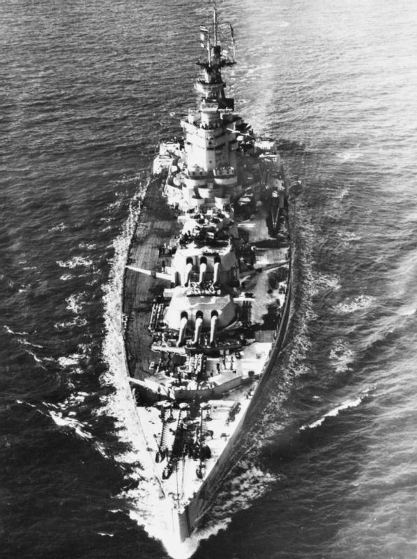 The Royal Navy during the Second World War HMS NELSON underway at sea.